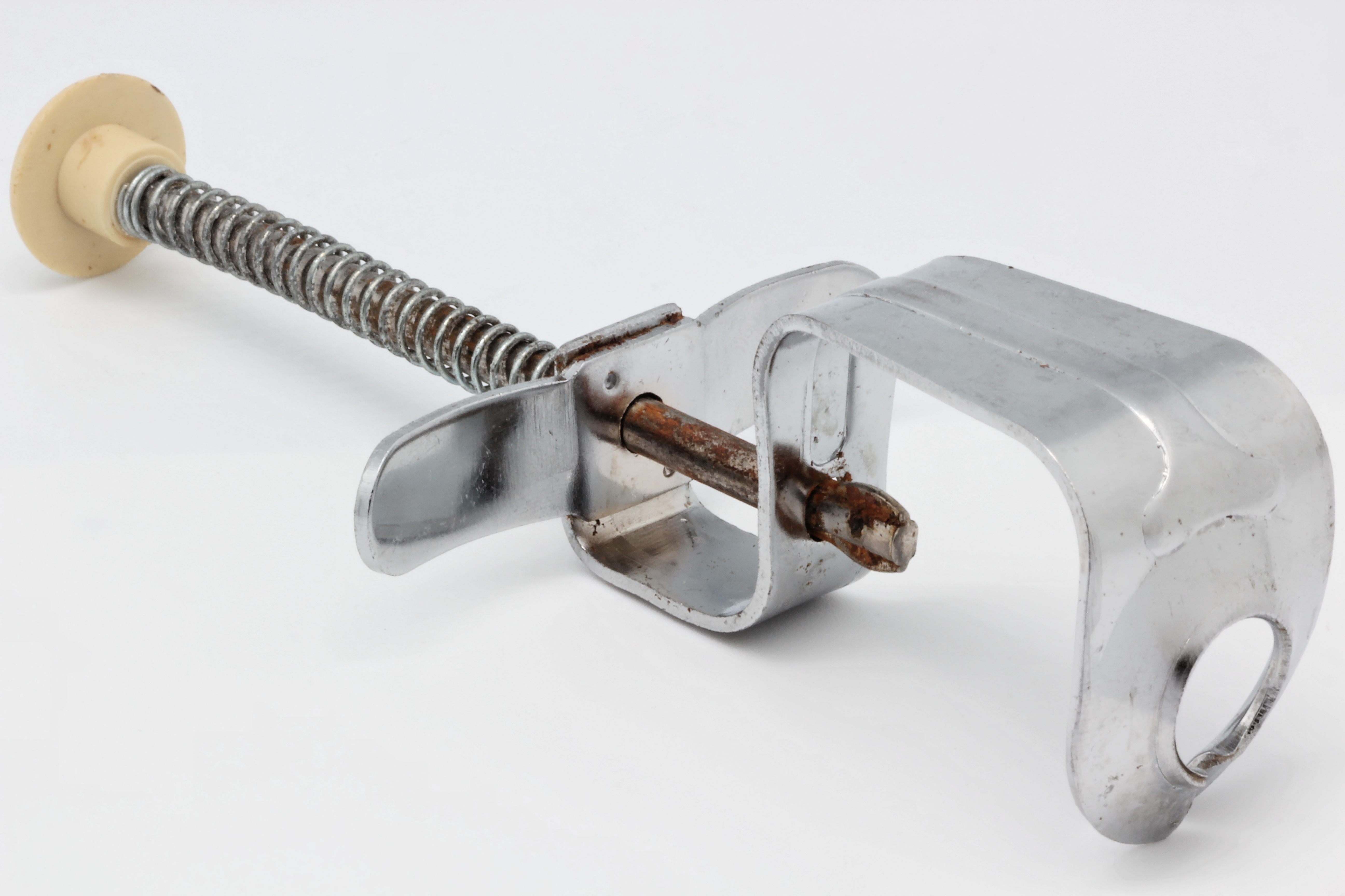 Cherry pitter